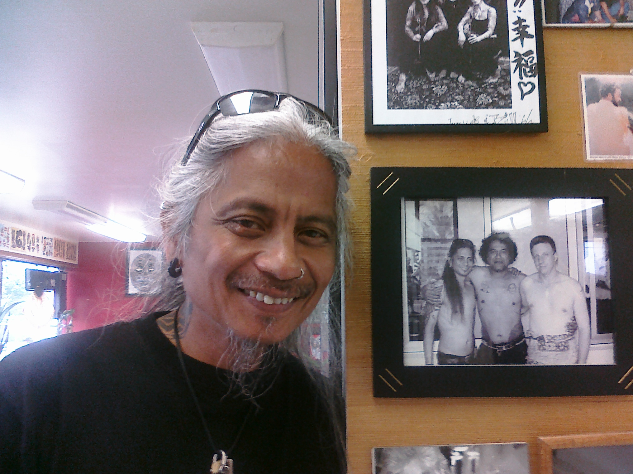 Leo Zulueta at Spiral Tattoo. Ann Arbor, Michigan, August 2011. Photo by Joann Natalia Aquino.